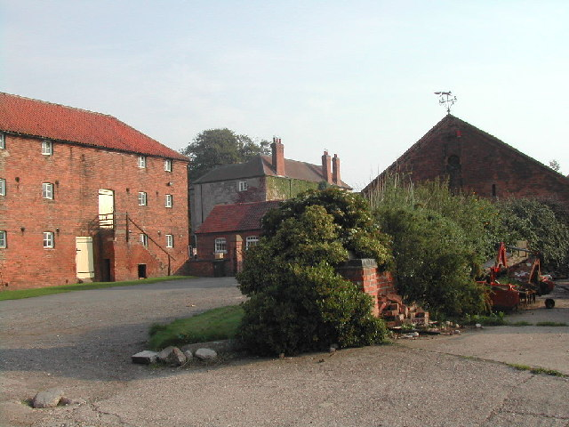 Shelford Manor Farm. At the back can be seen the manor house, In the time of the Civil War Shelford Manor was garrisoned for the King under Colonel Philip Stanhope